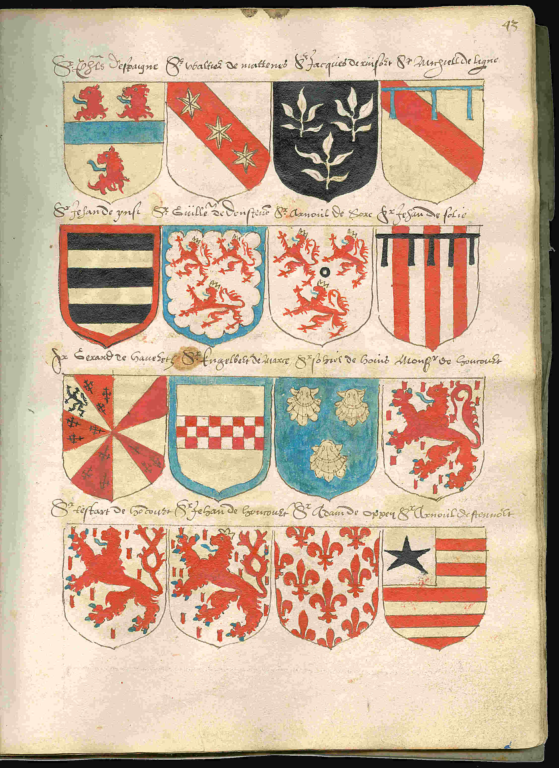 Page 43 from a copy of the Beyeren armorial / Wapenboek Beyeren from ca. 1600. The original Beyeren armorial from 1405 can be viewed at the website of the KB